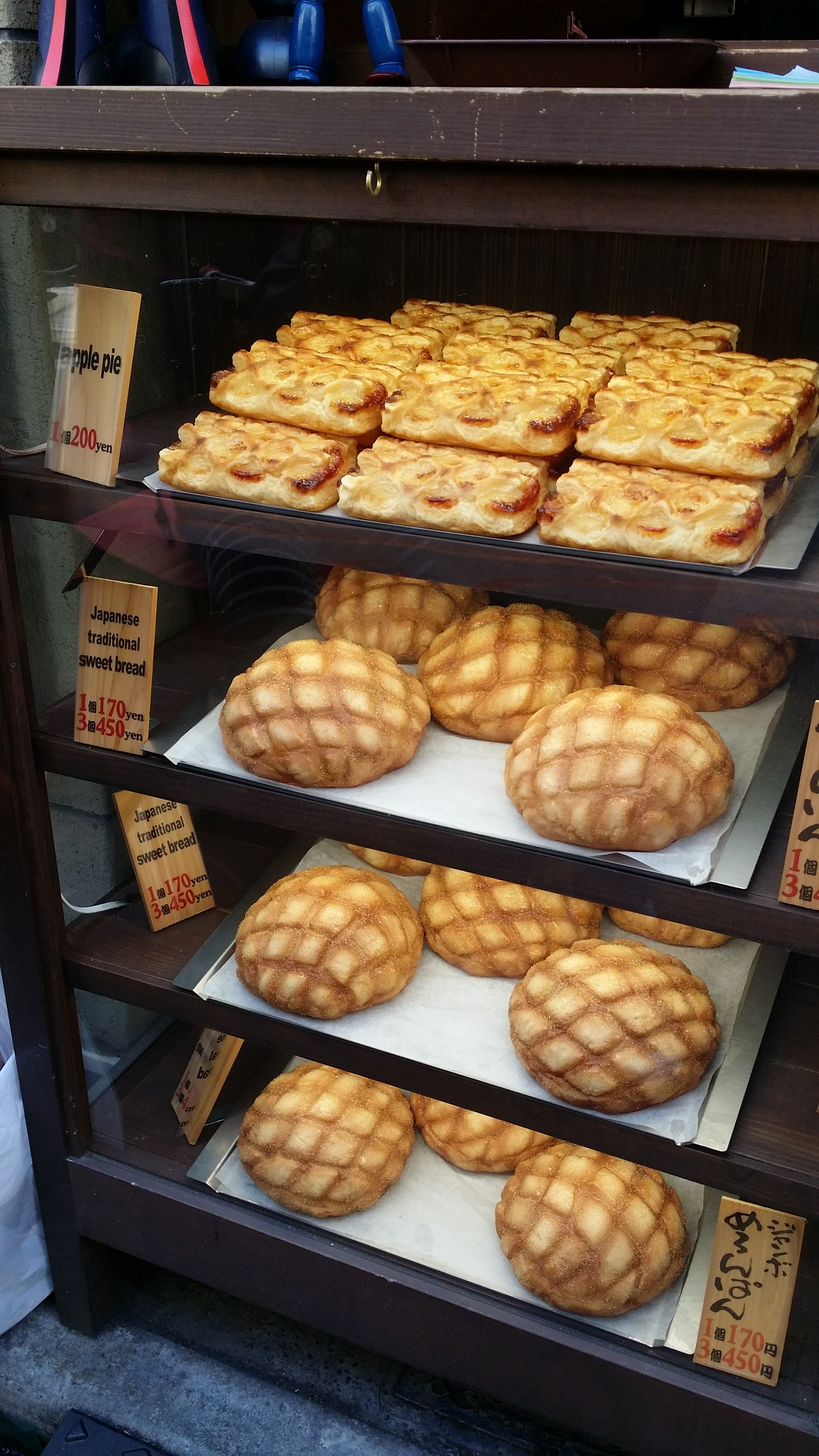 Famous Melon Bread